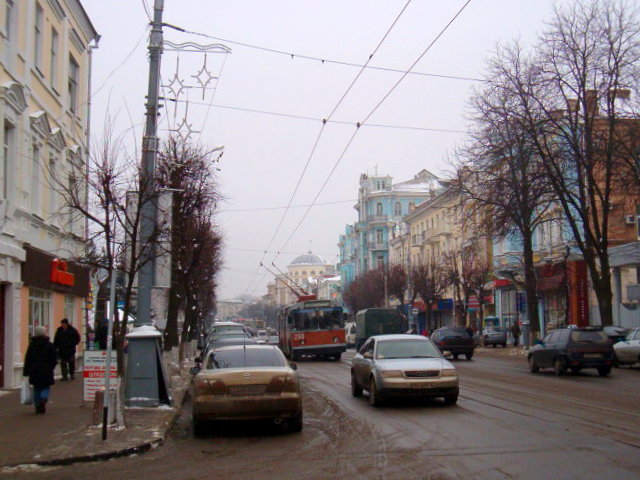 Trolleybus_in_Vinnytsia, 2008